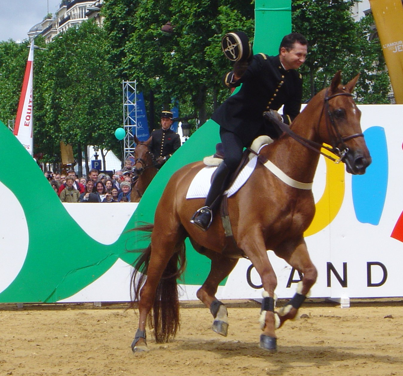 Riders of the Cadre Noir.Party promoting the candidacy of Paris to the 2012 Olympic Games., Avenue des Champs-Élysées, 5 June 2005